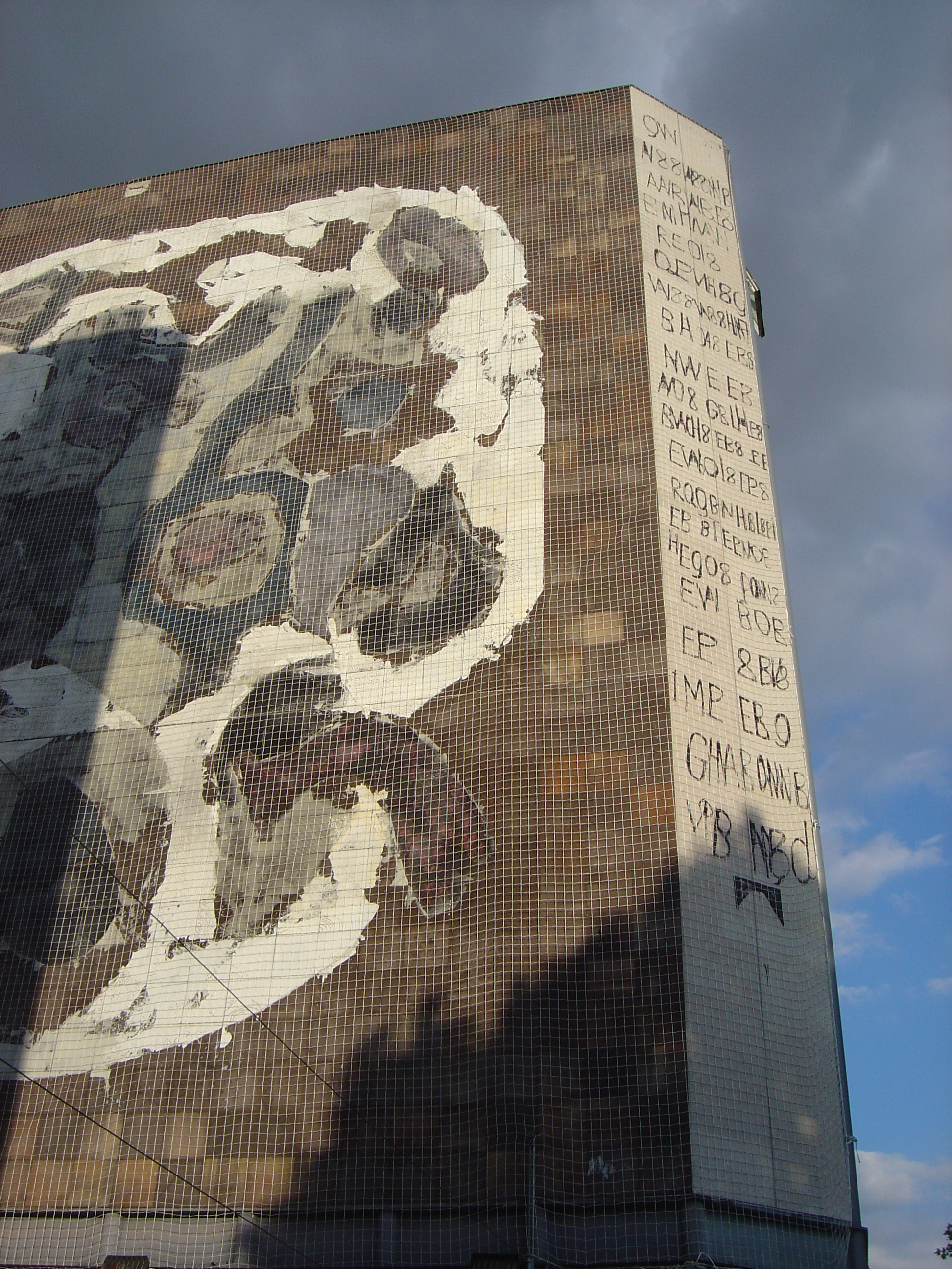 The "work of art" (Léon Gischia) on the left side of the entrance to the Jussieu Campus. 2005/6/12